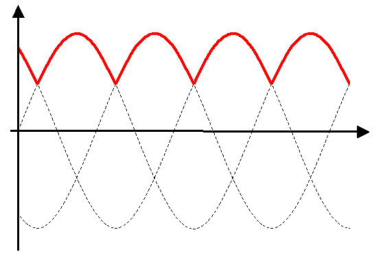 Output voltage waveform of three-phase half-wave rectifier.